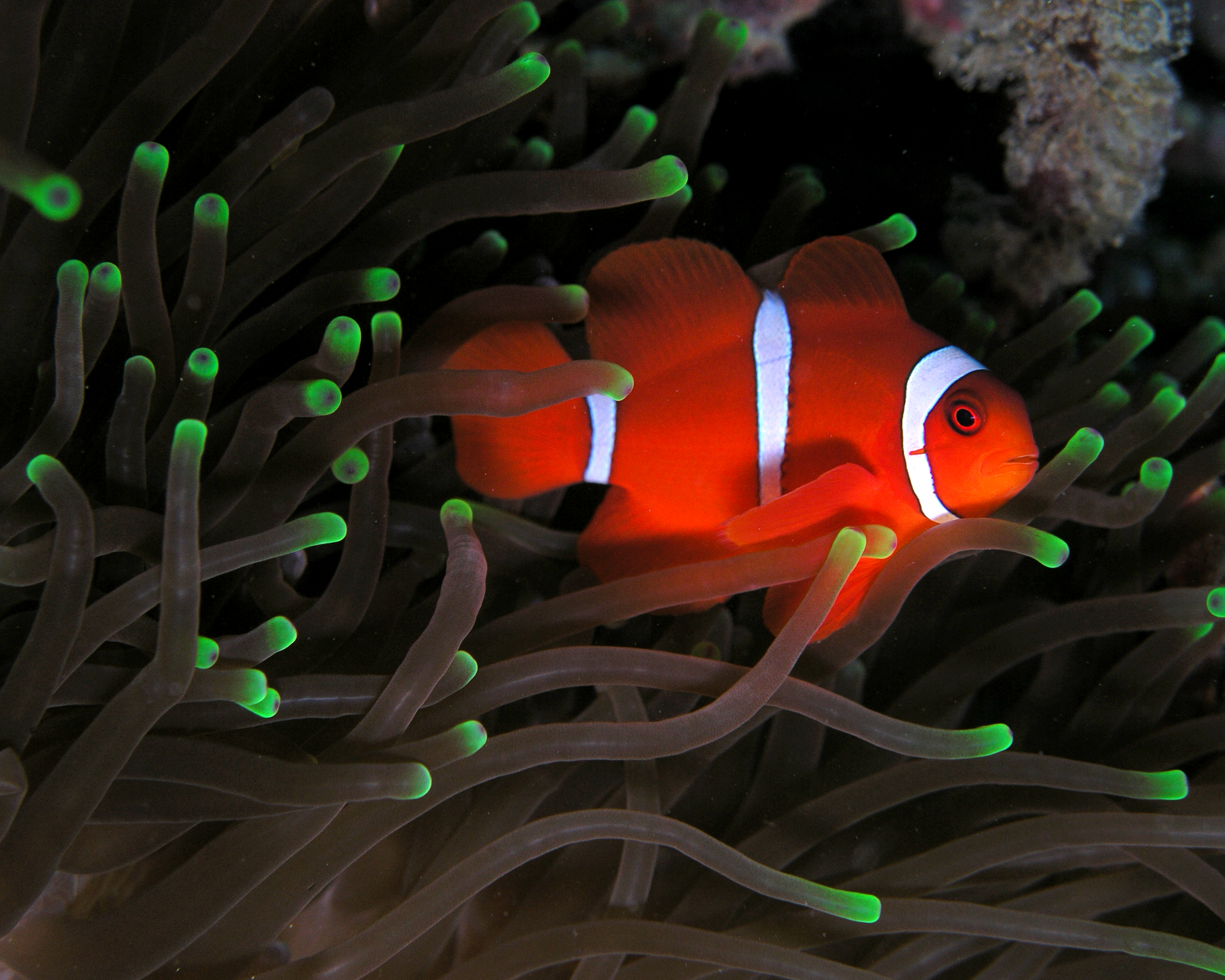 Spinecheek anemonefish (Premnas biaculeatus) from East Timor.